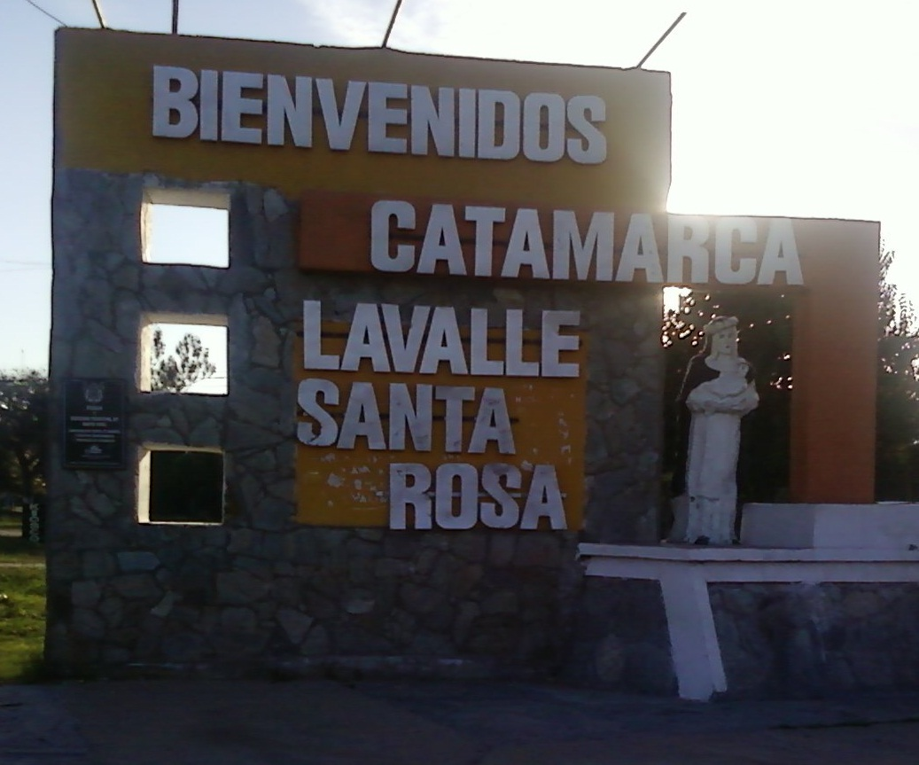 Se encuentra a orillas de las vías del ferrocarril